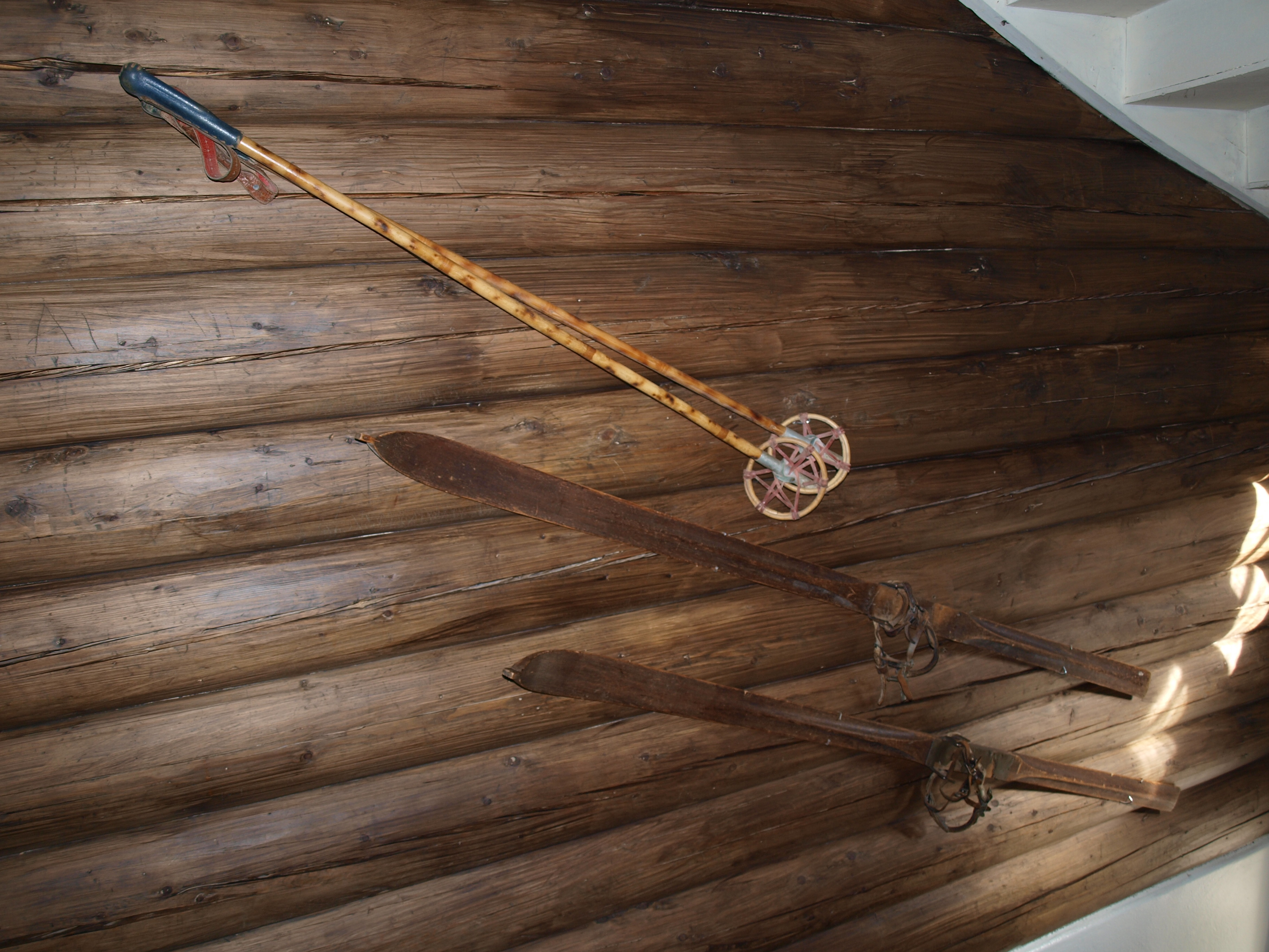 A pair of old skies in Løvlia, a tourist cabin in Krokskogen, Nordmarka, Norway.